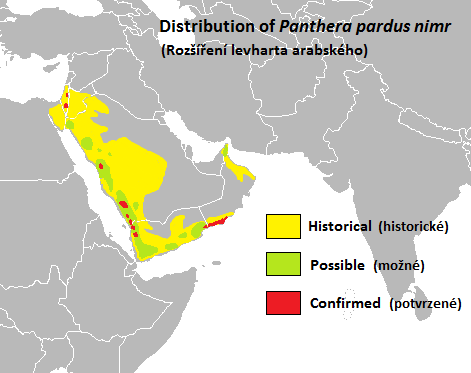 Distribution of Arabian leopard (Panthera pardus nimr) to the year 2006. Based on map in BREITENMOSER Urs & Christine (eds.). CAT News Special Issue 1 – Status and Conservation of the Leopard on the Arabian Peninsula. Cat Specialist Group, IUCN, 2006.